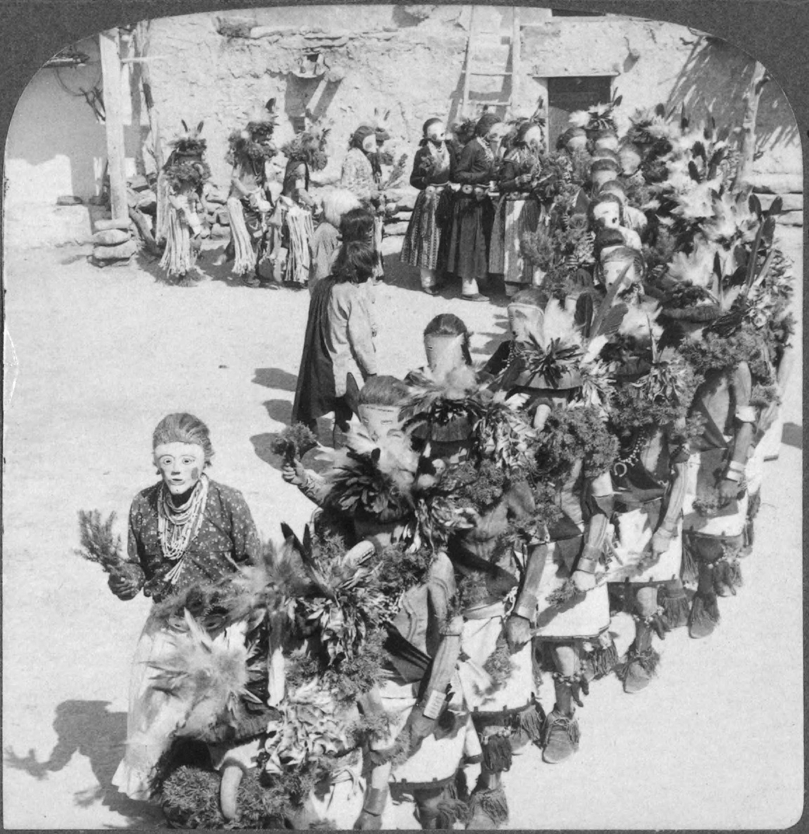 Photo of dance by kachina dancers of the Hopi pueblo of Shongopavi, Arizona, USA taken sometime between about 1870 and 1900. The dancers, which would be members of the local kiva religious societies, represent spirits called kachinas and wear elaborate masks. Changes to original work: Cropped out right image of stereo pair, converted to greyscale, adjusted brightness and contrast.